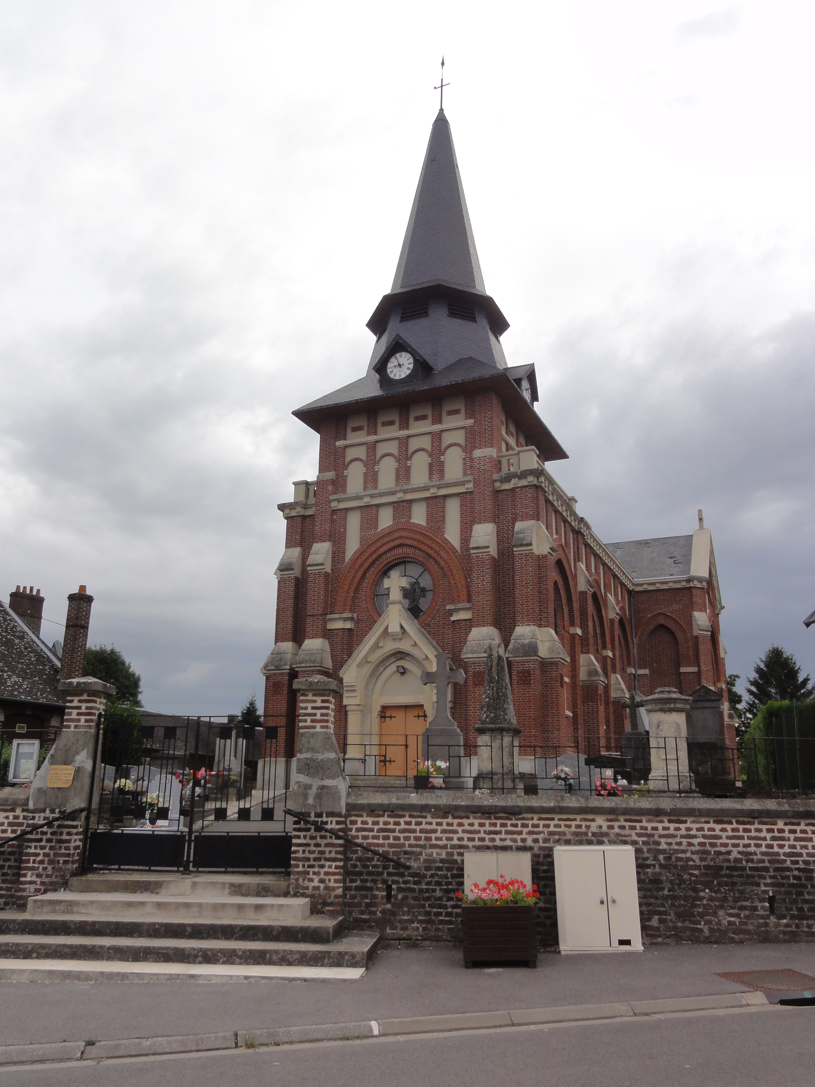 Urvillers (Aisne) église Sant-Rémi